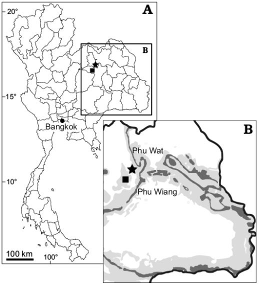 Map of Thailand (A) and close-up of northeastern Thailand (B) showing the location of Phu Wiang locality, Khon Kaen Province (square) and Phu Wat locality, Nong Bua Lamphu Province (star). Dark gray, Sao Khua Formation outcrops, light gey, Phu Kradung and Khok Kruat formations.